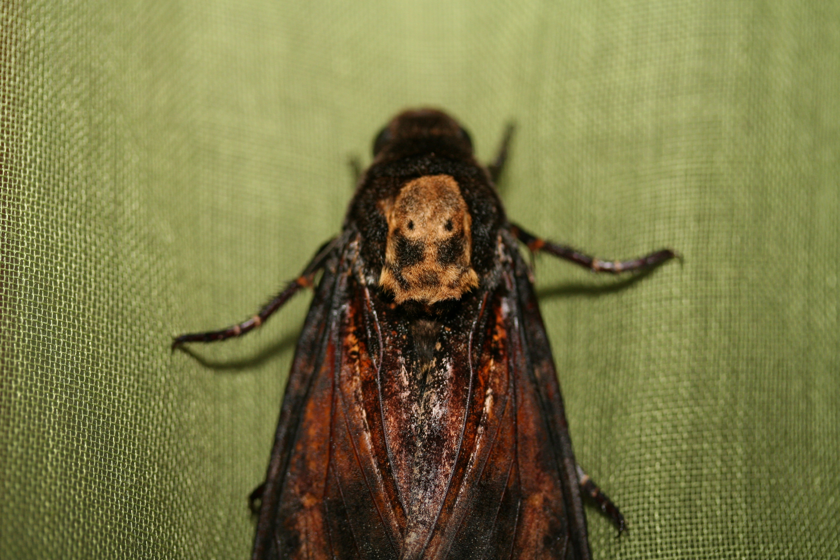 Detail of the thorax of Acherontia atropos